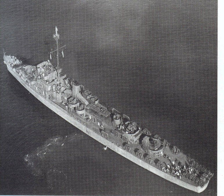 The U.S. Navy destroyer escort USS Foreman (DE-633) during her shakedown cruise, 13 November 1943.